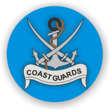 Pakistan Coast Guards Logo